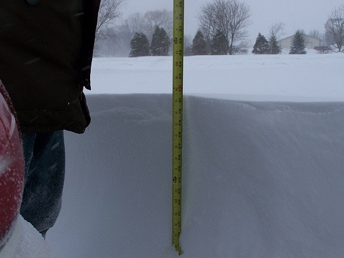 Simple measurement of accumulation during snowfall in Pleasant Prairie Wisconsin.